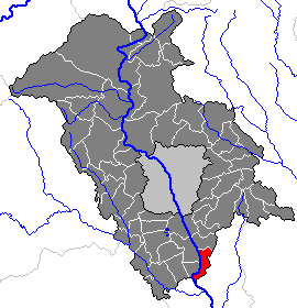 This map shows the area of the Gemeinde (municipality) Mellach in the Bezirk (district) Graz-Umgebung, Styria, Austria.